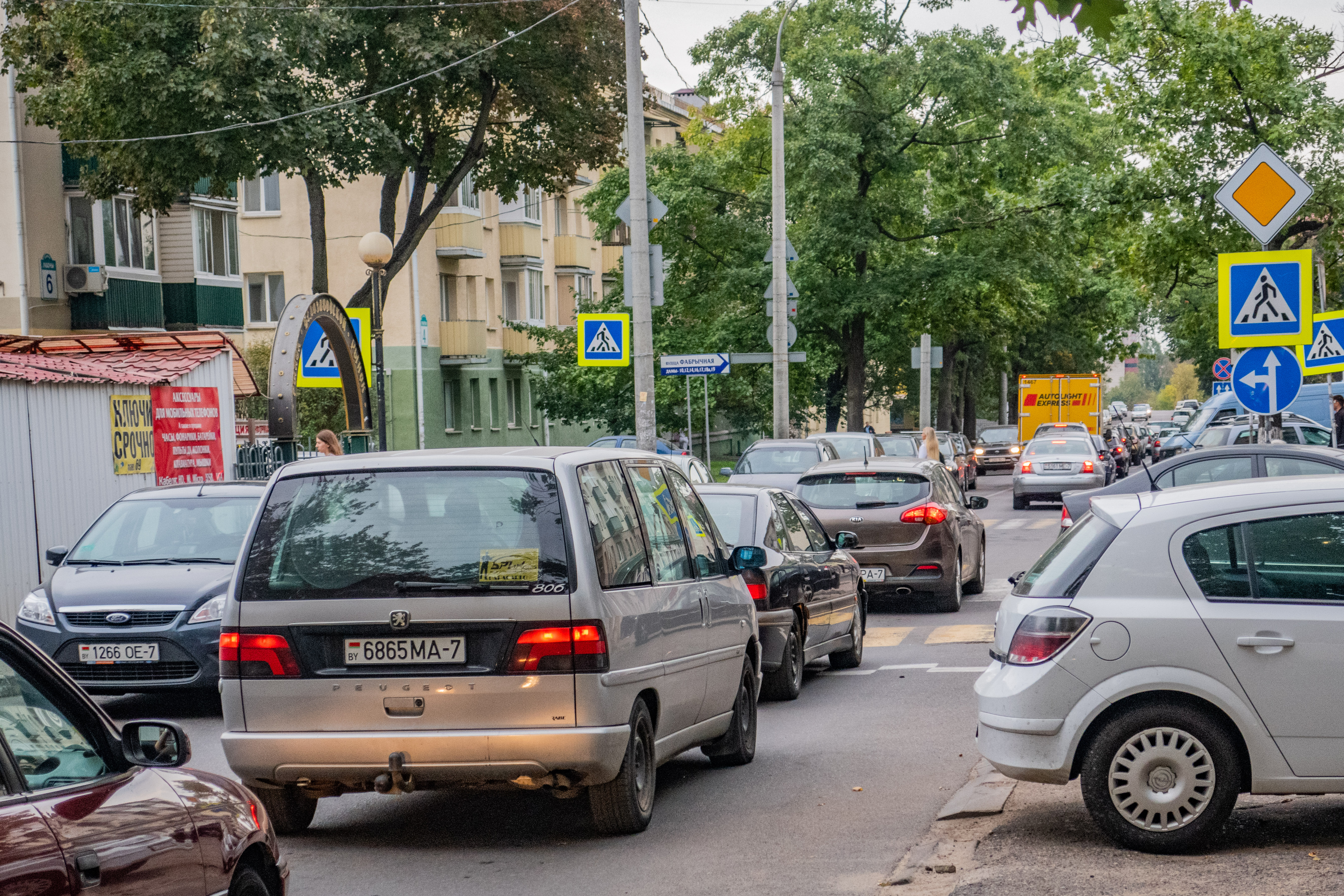 Rabočy lane. Minsk, Belarus